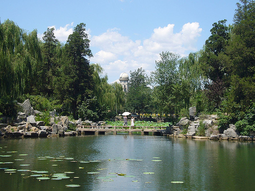 A Qing Dynasty garden on Tsinghua University campus, Bejing, China.